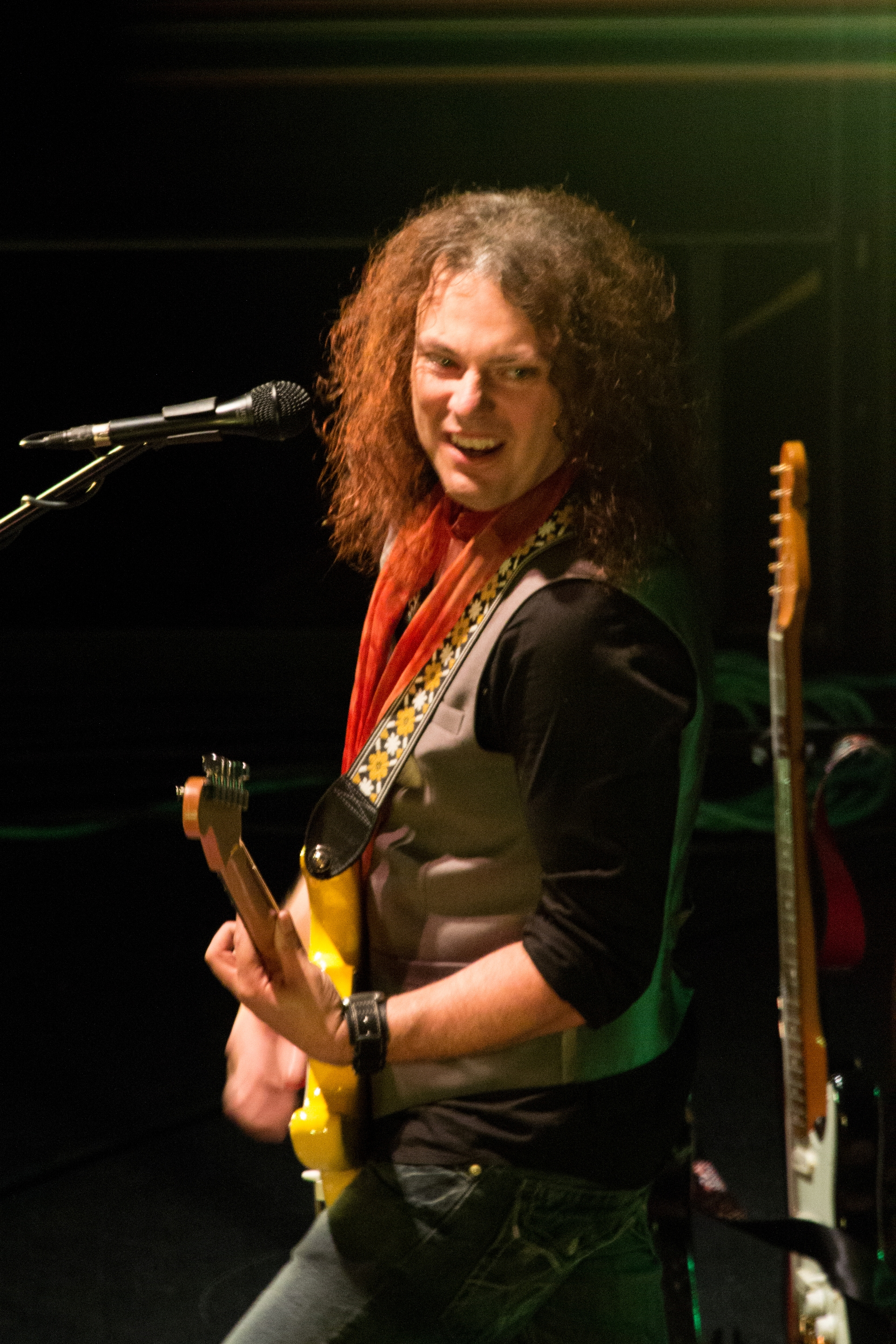 Anthony Gomes at the Mississippi Valley Blues Fest, Davenport, IA 7/05/13